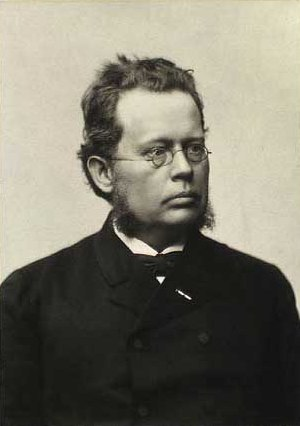 Mayor of Finances in Copenhagen Municipality and MP, Ludvig Christian Borup (1836-1903)